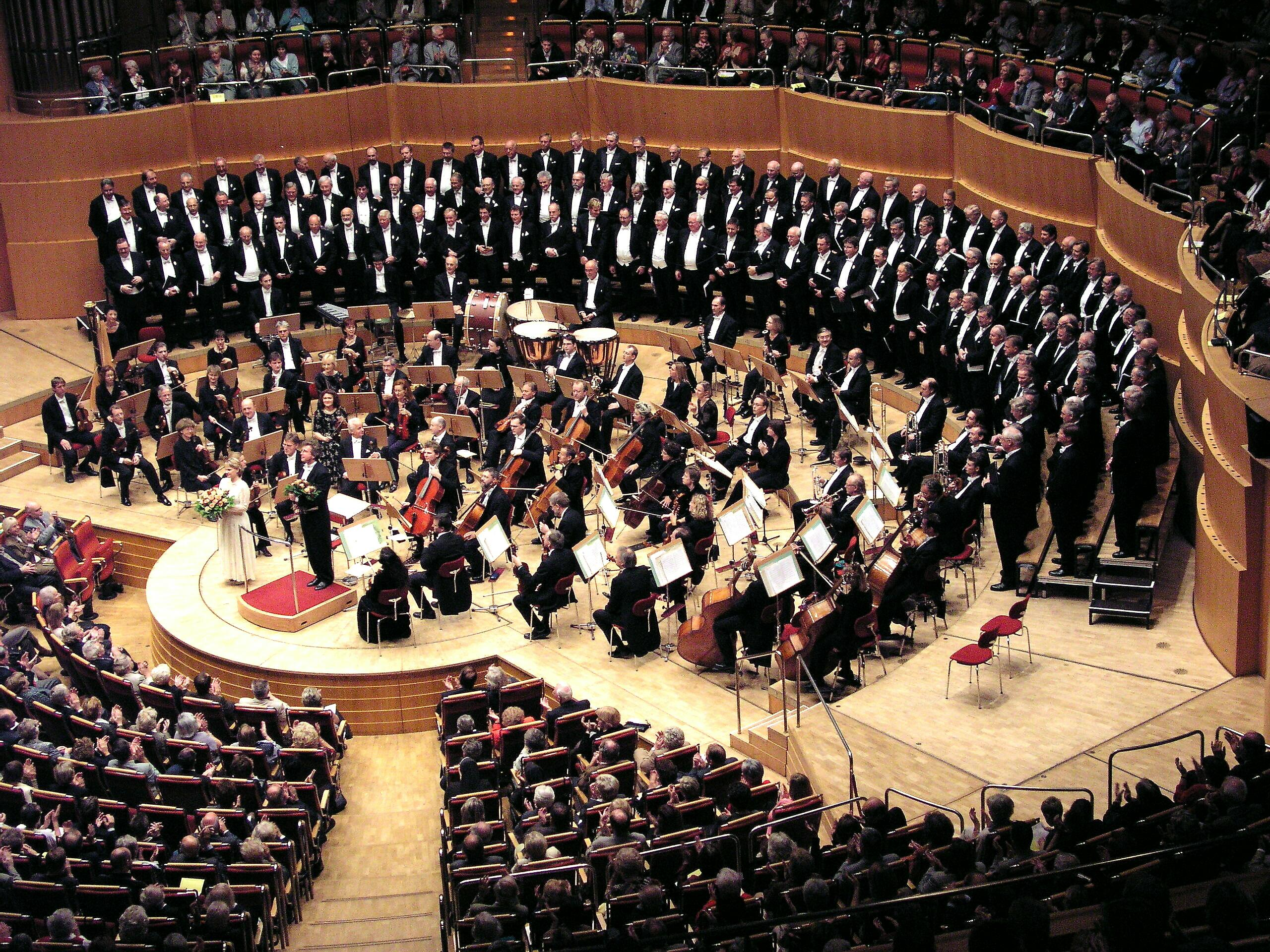 A concert in the Philharmonie Köln